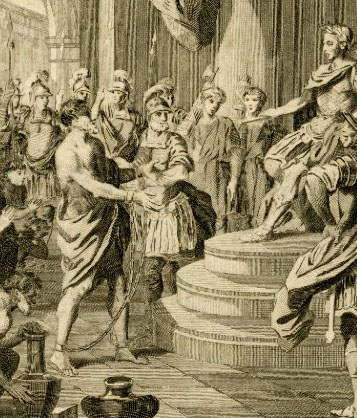 Caractacus before the Emperor Claudius at Rome, detail from an 18th century print